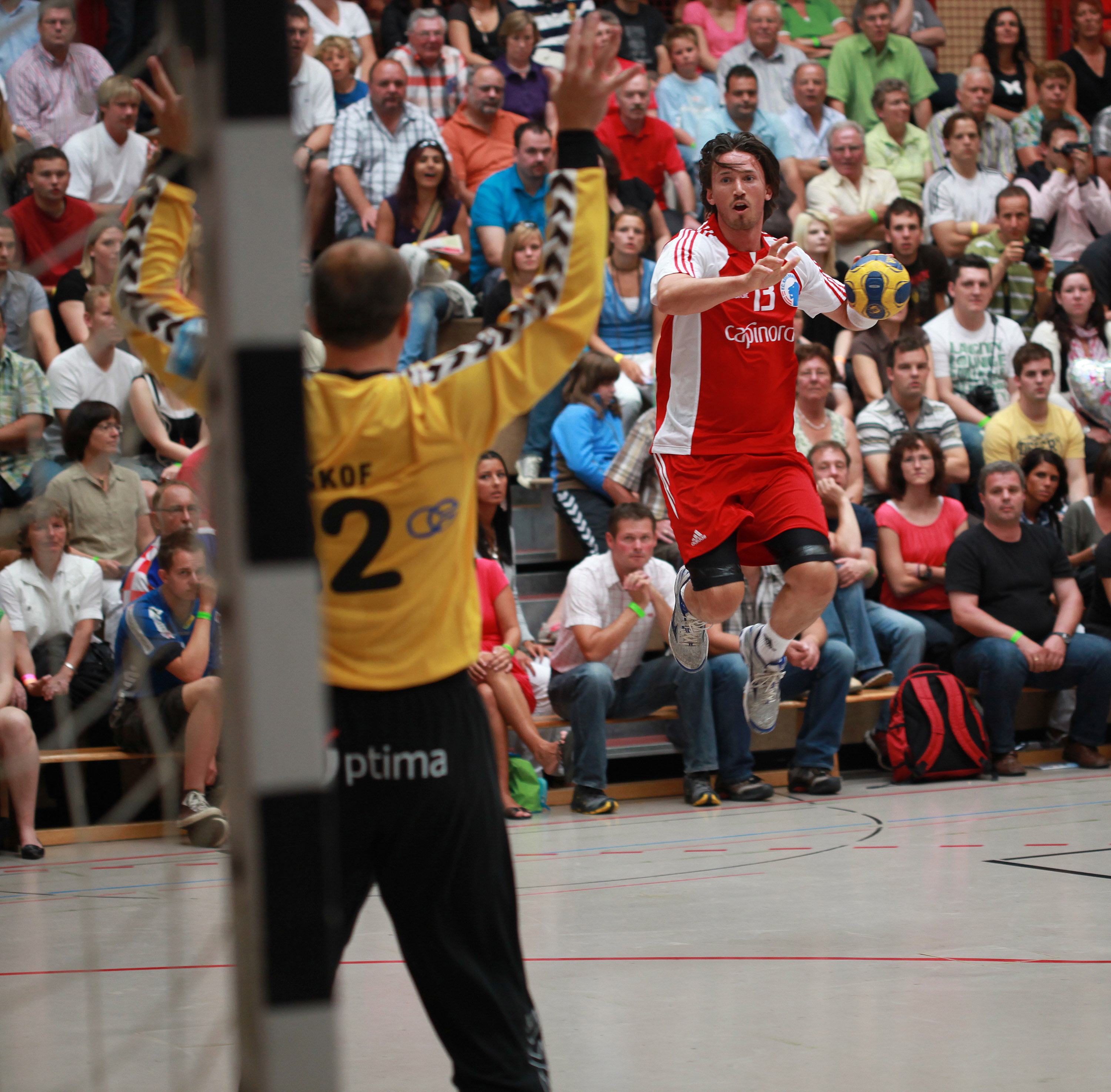 Thomas Drange, Norwegian handball player from FCK Håndbold, in Ehingen (Germany), during Schlecker Cup 2009.